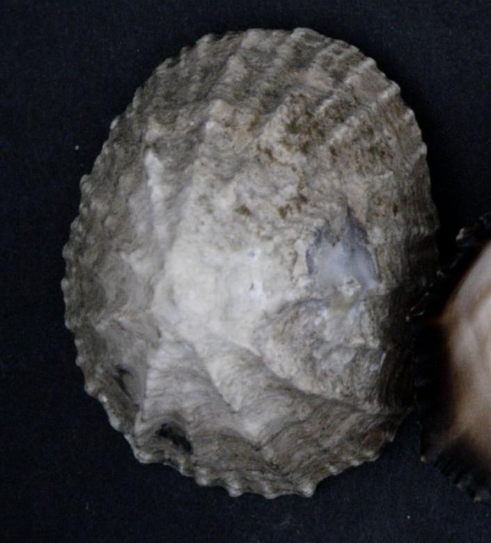 Cropped image of taxon in file name